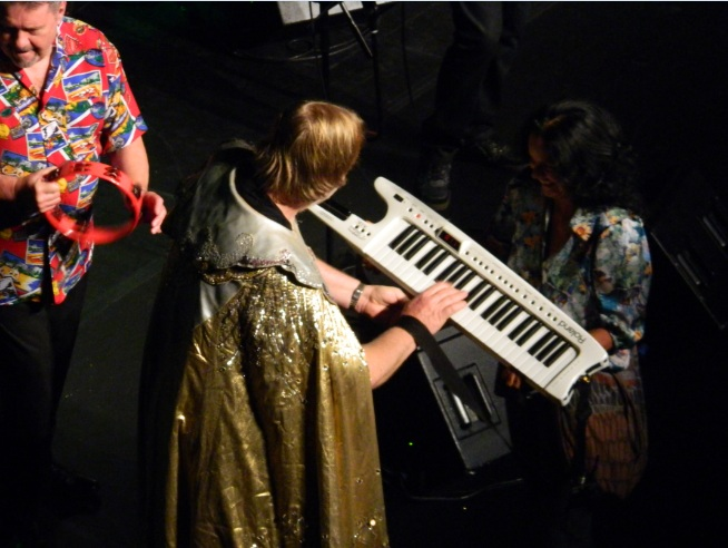 Rick Wakeman with his portable keyboard in Sao Paulo, Brazil-2012 Photo: Aurelio Moraes